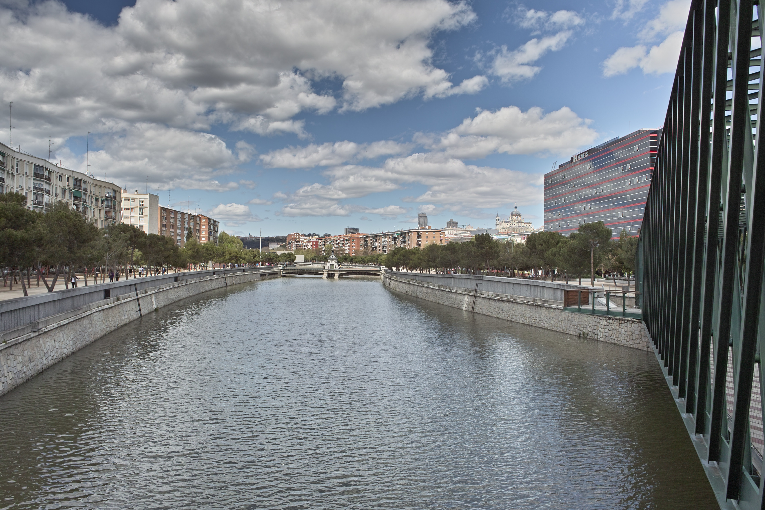 Manzanares river in Madrid from Principality of Andorra bridge.